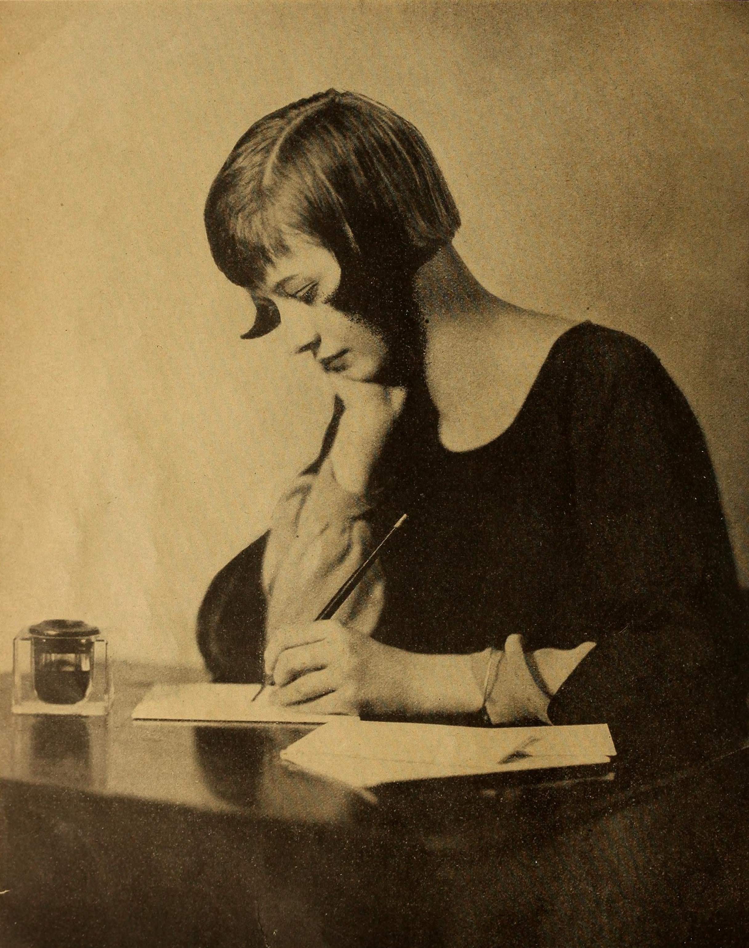 Portrait of Delight Evans